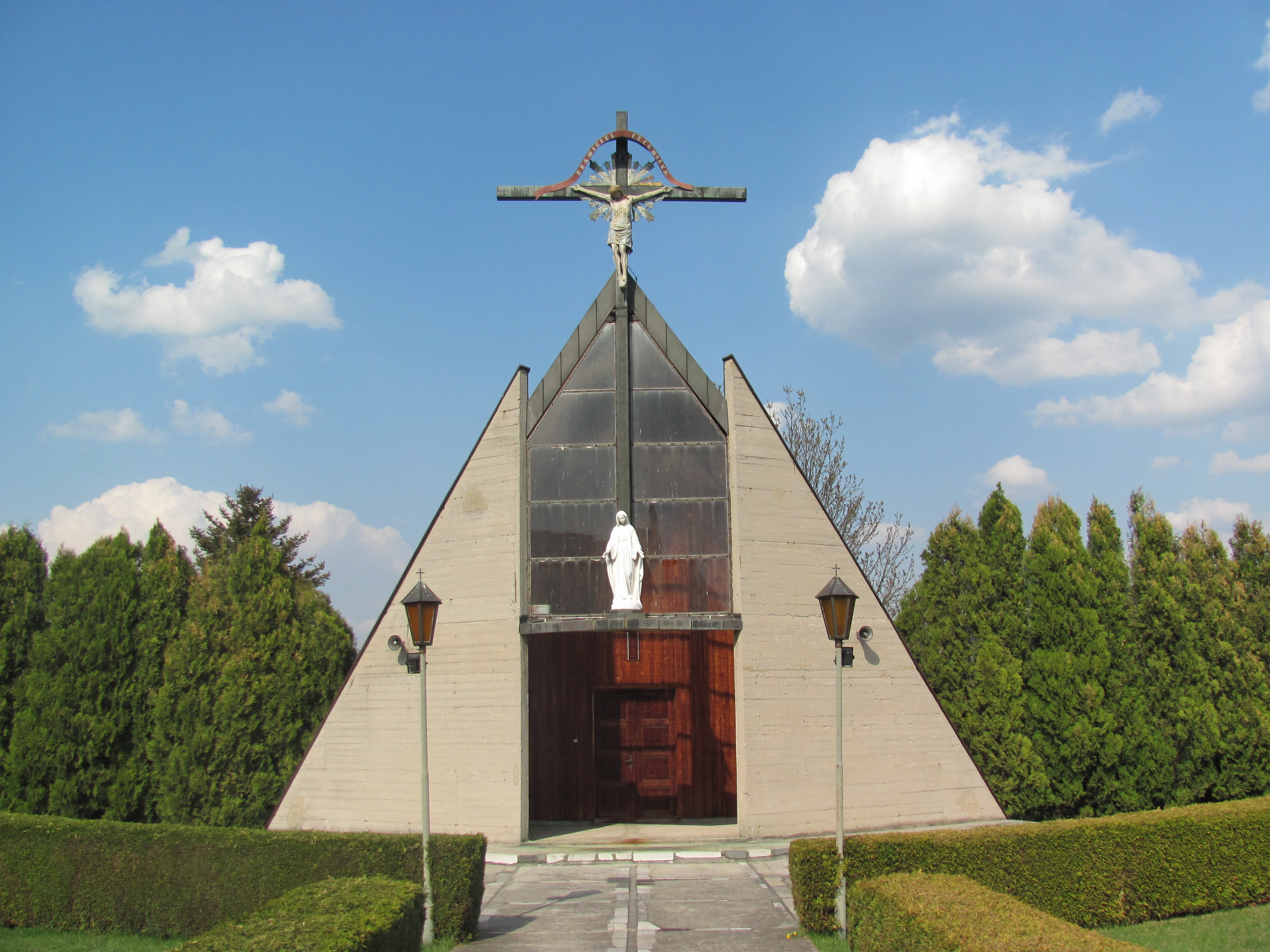 Cemetery chapel in Brynica